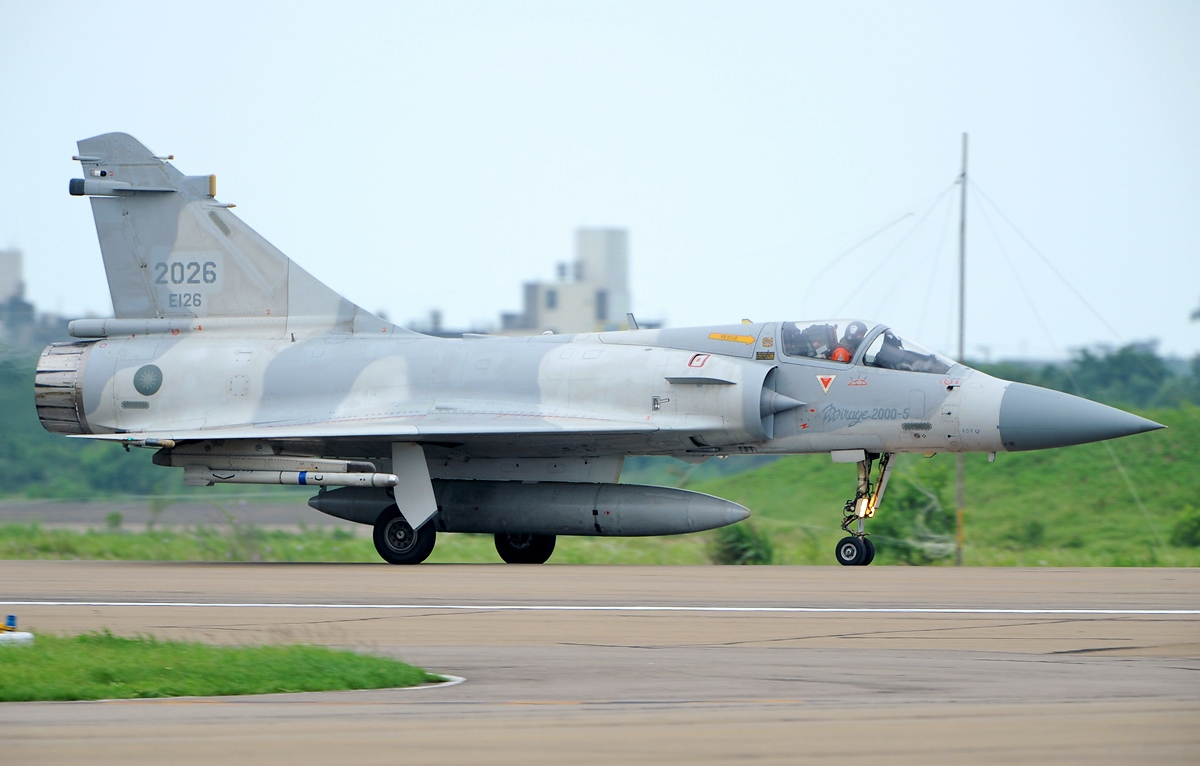 Republic of China Air Force Dassault Mirage 2000